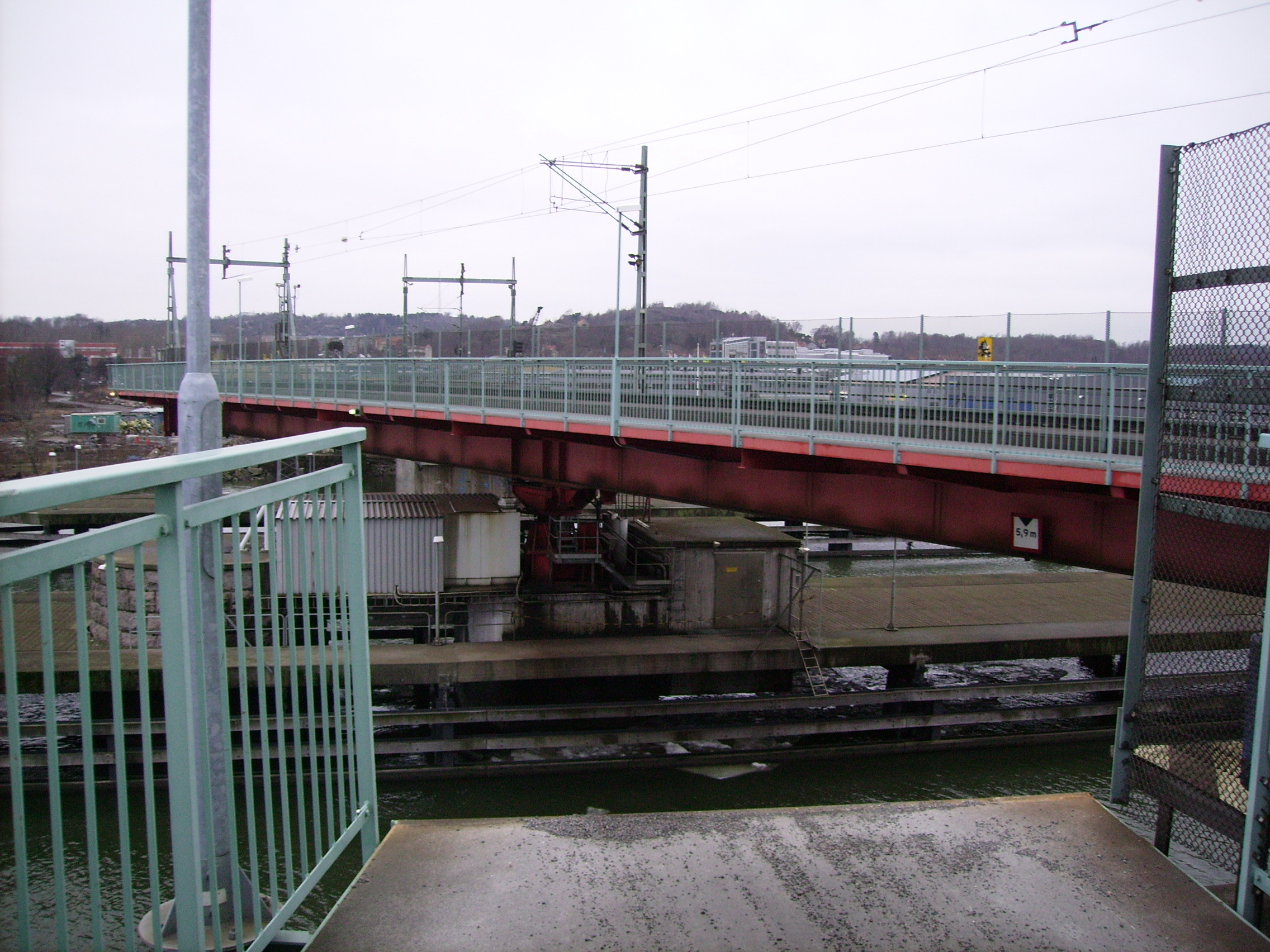 Marieholmsbron is opening for boat traffic 2009.